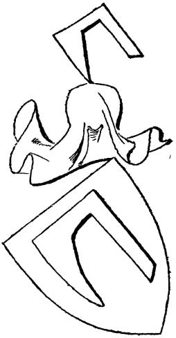 Coat of arms Topór - the oldest depiction with mantling